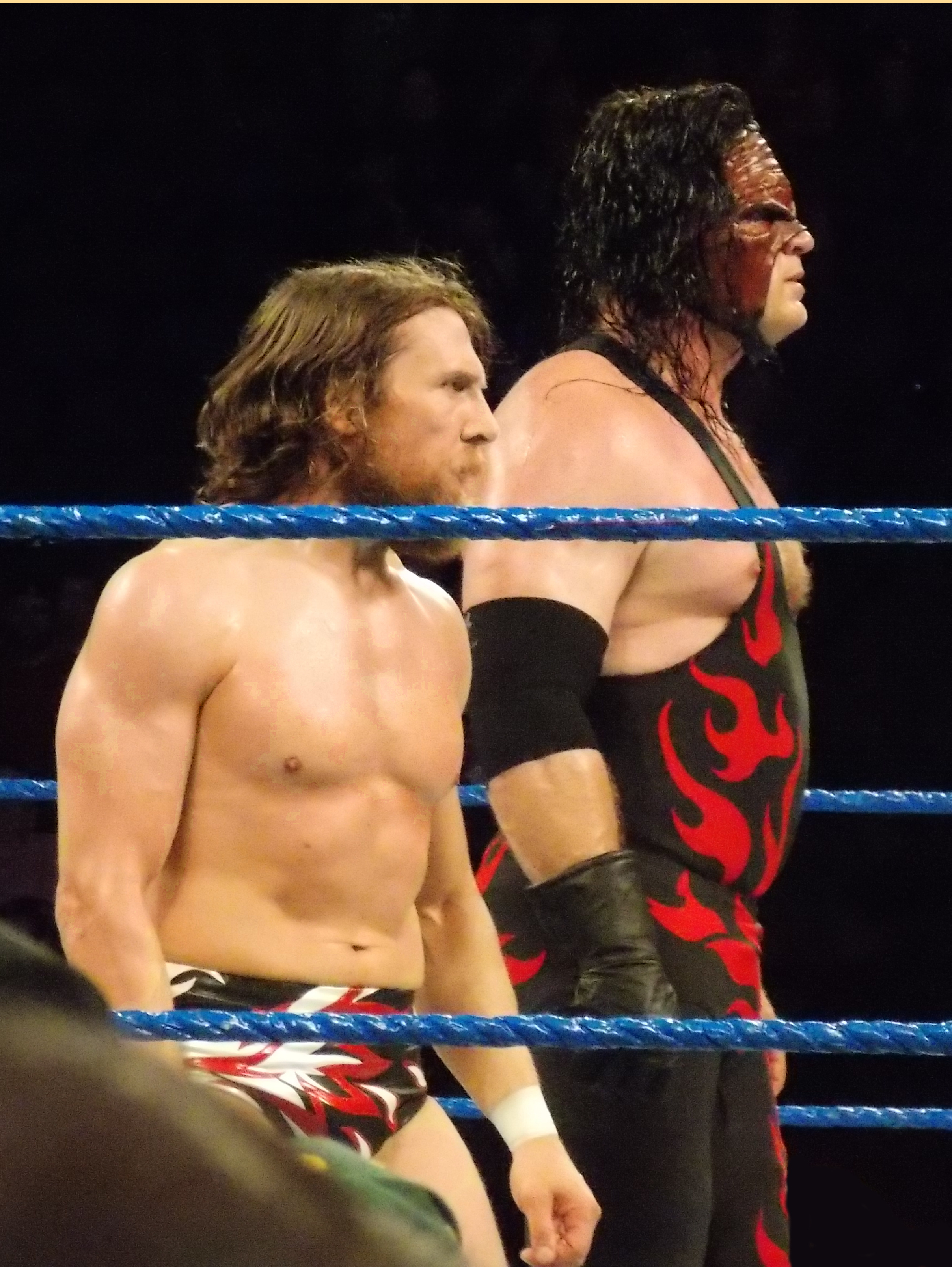 Daniel Bryan and Kane, Team Hell No, at WWE SmackDown Live in Omaha, Nebraska, USA on Tuesday, July 3, 2018